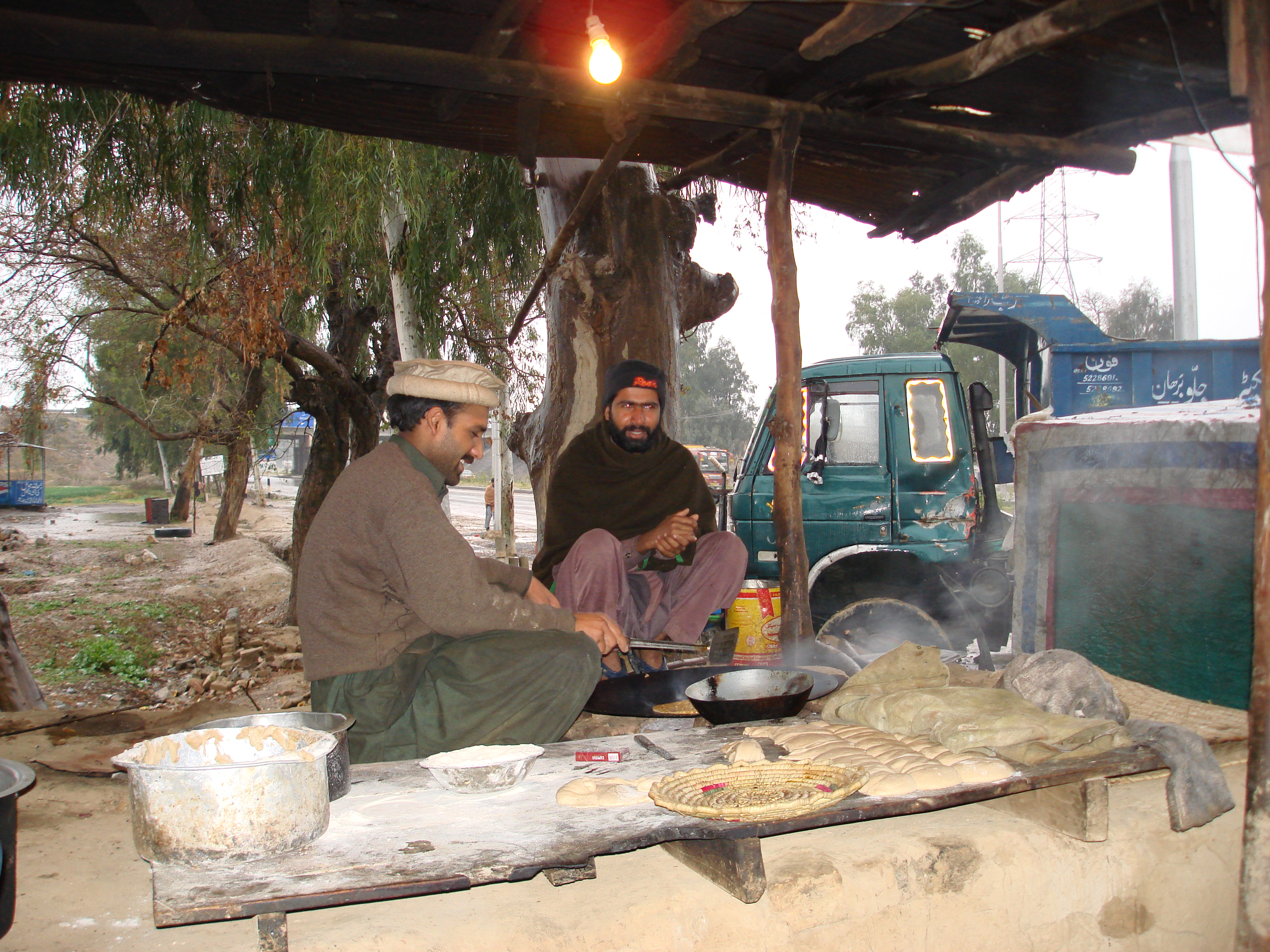 Naan cooking on a roadside not far from Wah (Pakistani Punjab)